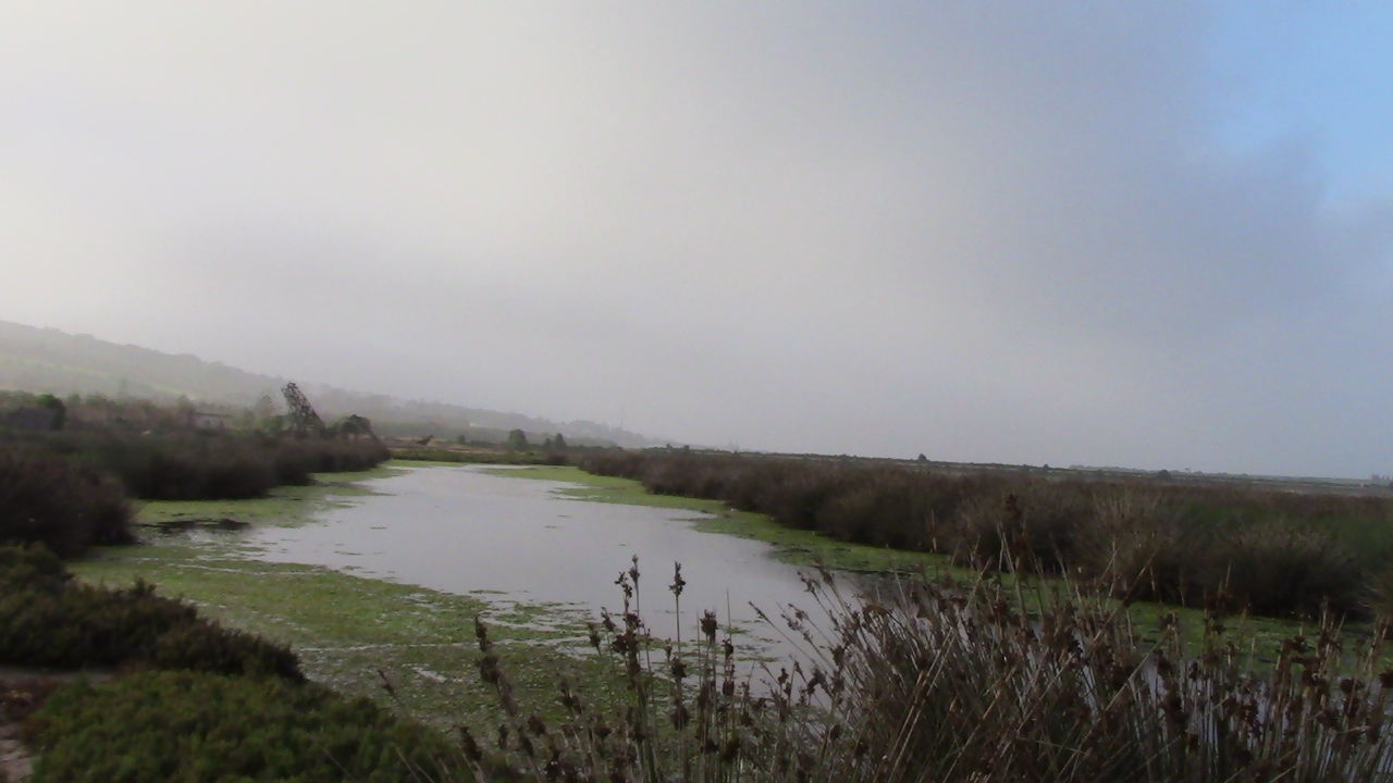 Sidi Moussa Lagoon Nature Preserve - View